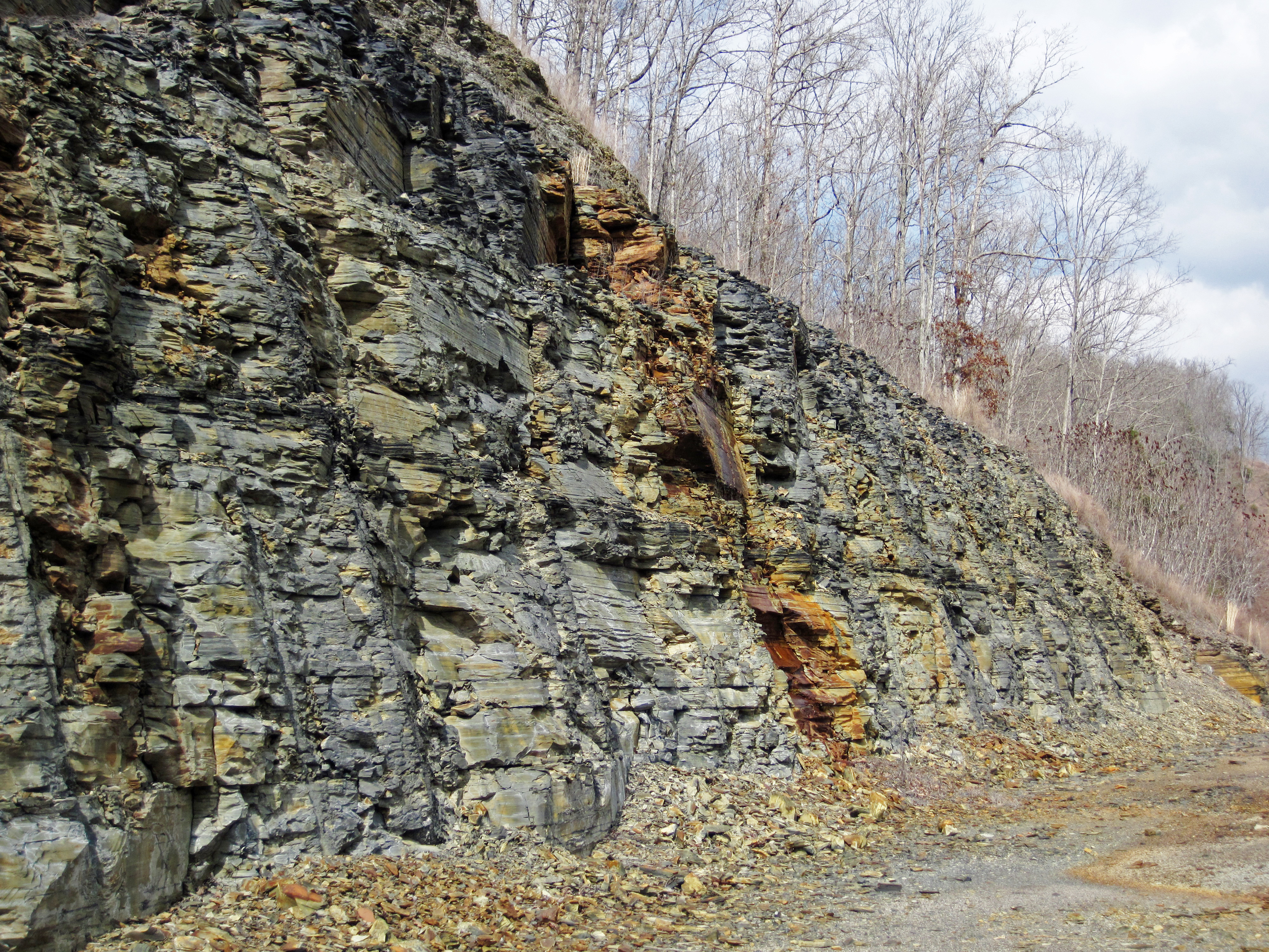 Shales in the Devonian of Kentucky, USA. This is a weathered shale outcrop in southern Kentucky. The Chattanooga Shale of Kentucky and Tennessee consists of dark-colored, chippy-weathering, marine mudshales of Late Devonian age. These black shales were deposited in a moderately deep, anoxic seafloor environment. This was a widespread lithofacies during the Late Devonian's Global Anoxia Event. The Chattanooga Shale is equivalent to the Ohio Shale, the Antrim Shale, and the New Albany Shale in surrounding states. Stratigraphy: Chattanooga Shale, Upper Devonian Locality: roadcut on the northern side of Route 90, just west of Burkesville, central Cumberland County, southern Kentucky, USA (36° 47’ 51.17” North latitude, 85° 23’ 10.62” West longitude)